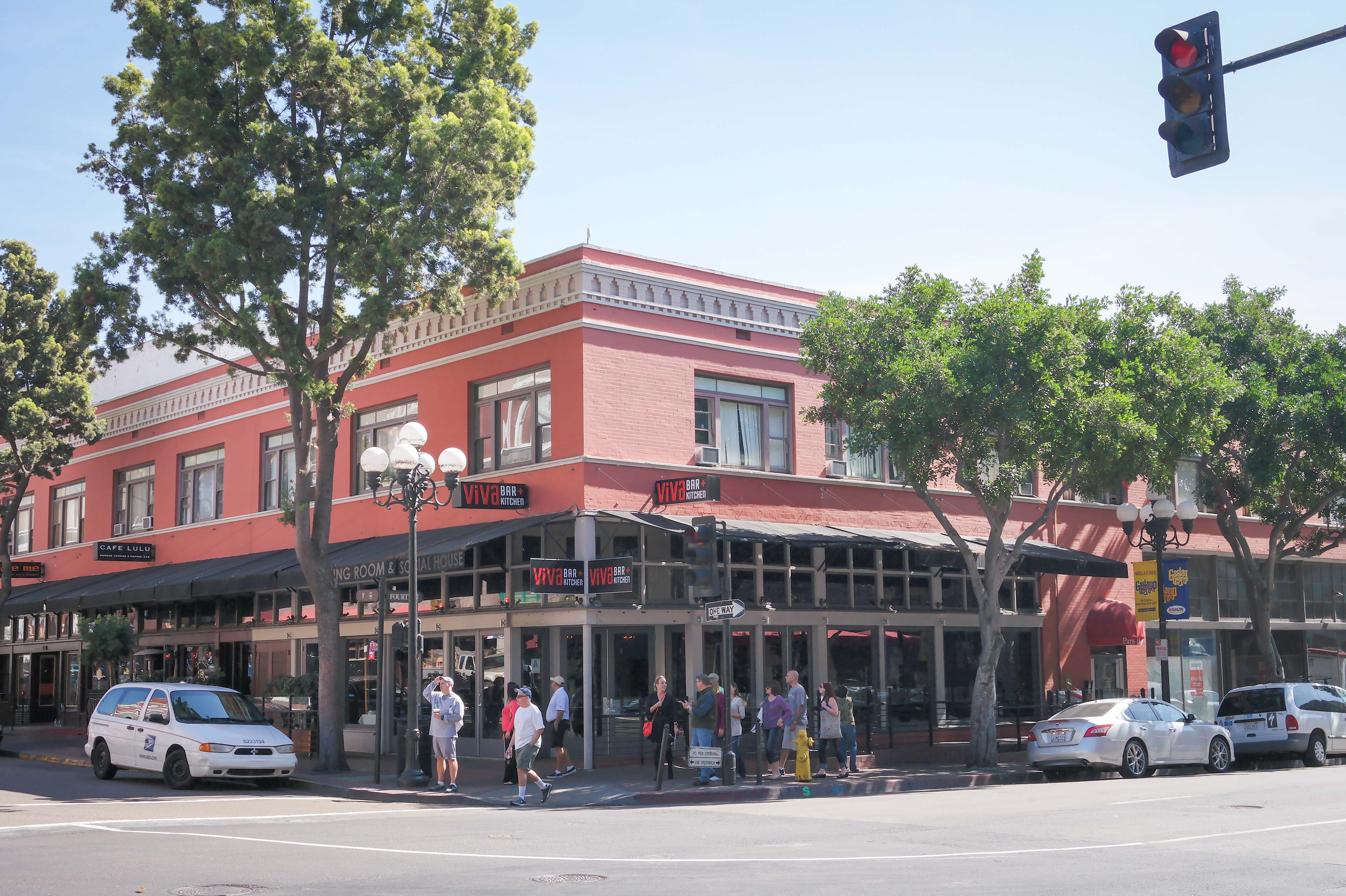 Historic Building Survey plaque: "14 Paris Hotel, 1910. From 1910 to 1918, Muelheisen Tent and Awning Company, located in this two-story brick building, supplied awnings for several buildings in the Gaslamp District. It later became Western Leather Supply, which operated at the site until 1930. Various tenants have occupied the ground floor since, including Club Tokyo and El Indio Shop, featuring Mexican food. The second floor has been rented rooms since 1911, when it was known as the Washington Hotel, and later, Paris Hotel."